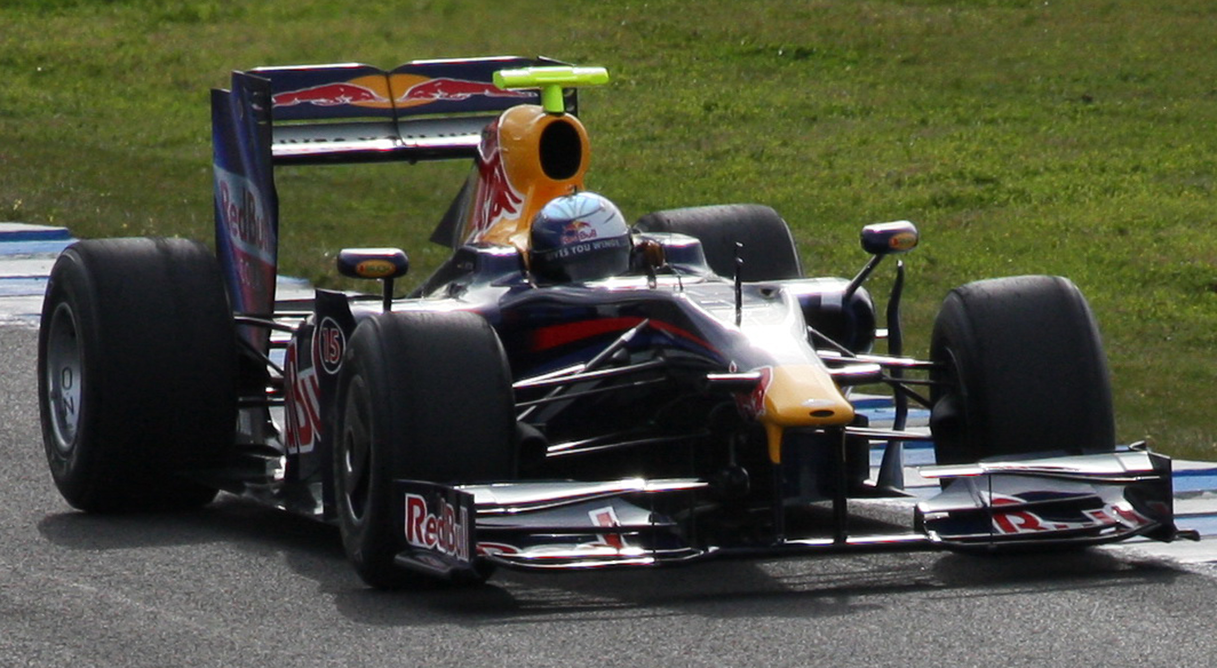 Sebastian Vettel in the Red Bull RB5, F1 testing session, Jerez 10-Feb-2009